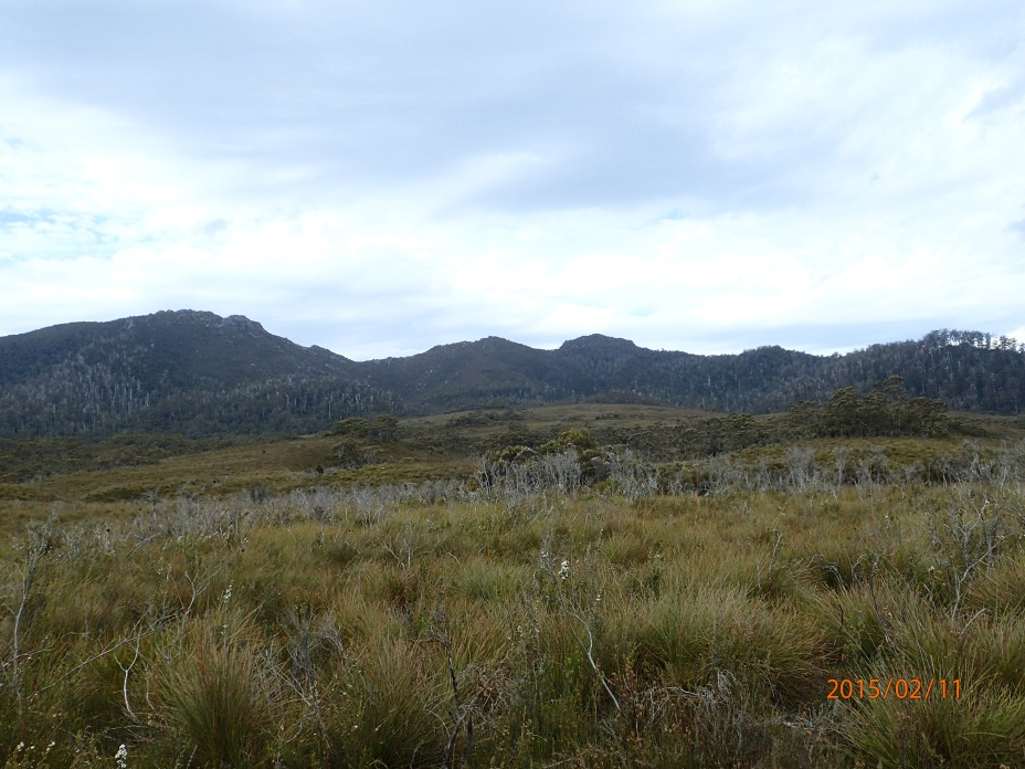 Figure 1 A characteristic button grass moorland in the highlands of southwest Tasmania.